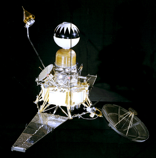 Colour picture of a Ranger block II with hardlander. Ranger 3, Ranger 4 and Ranger 5.